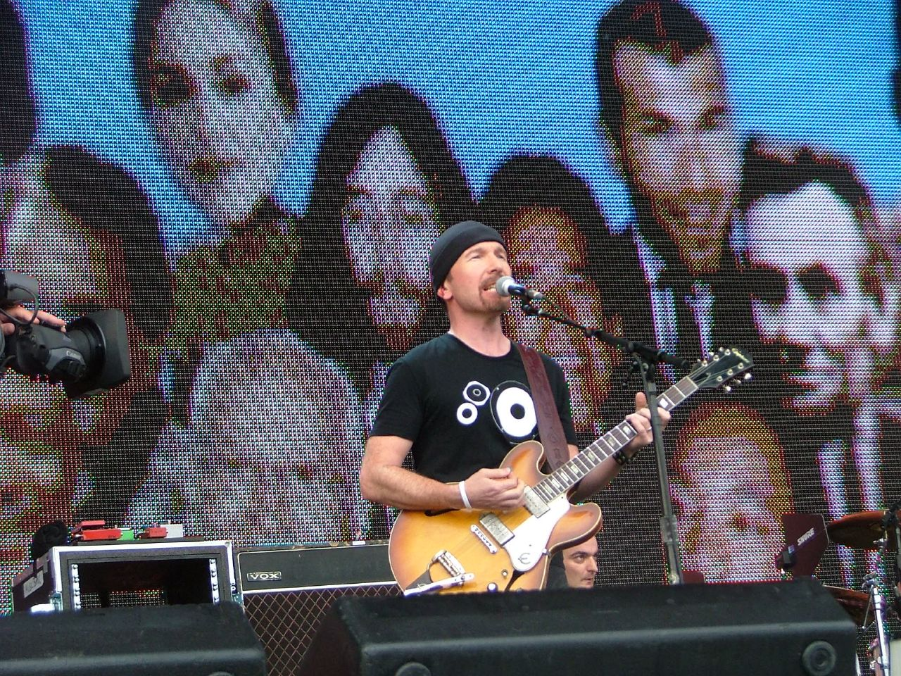 The Edge/Live8